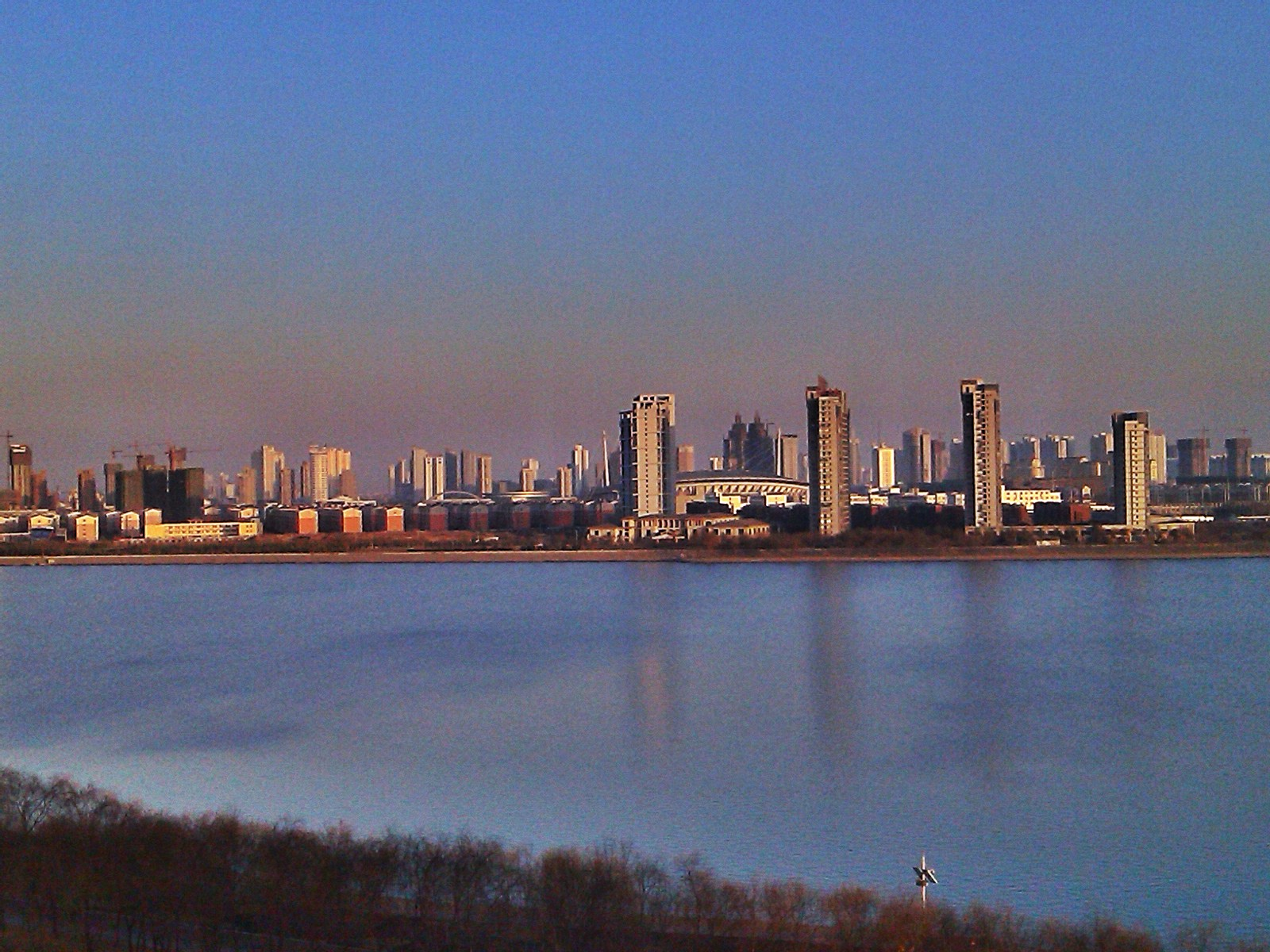 Luo River Luoyang Jianxi District